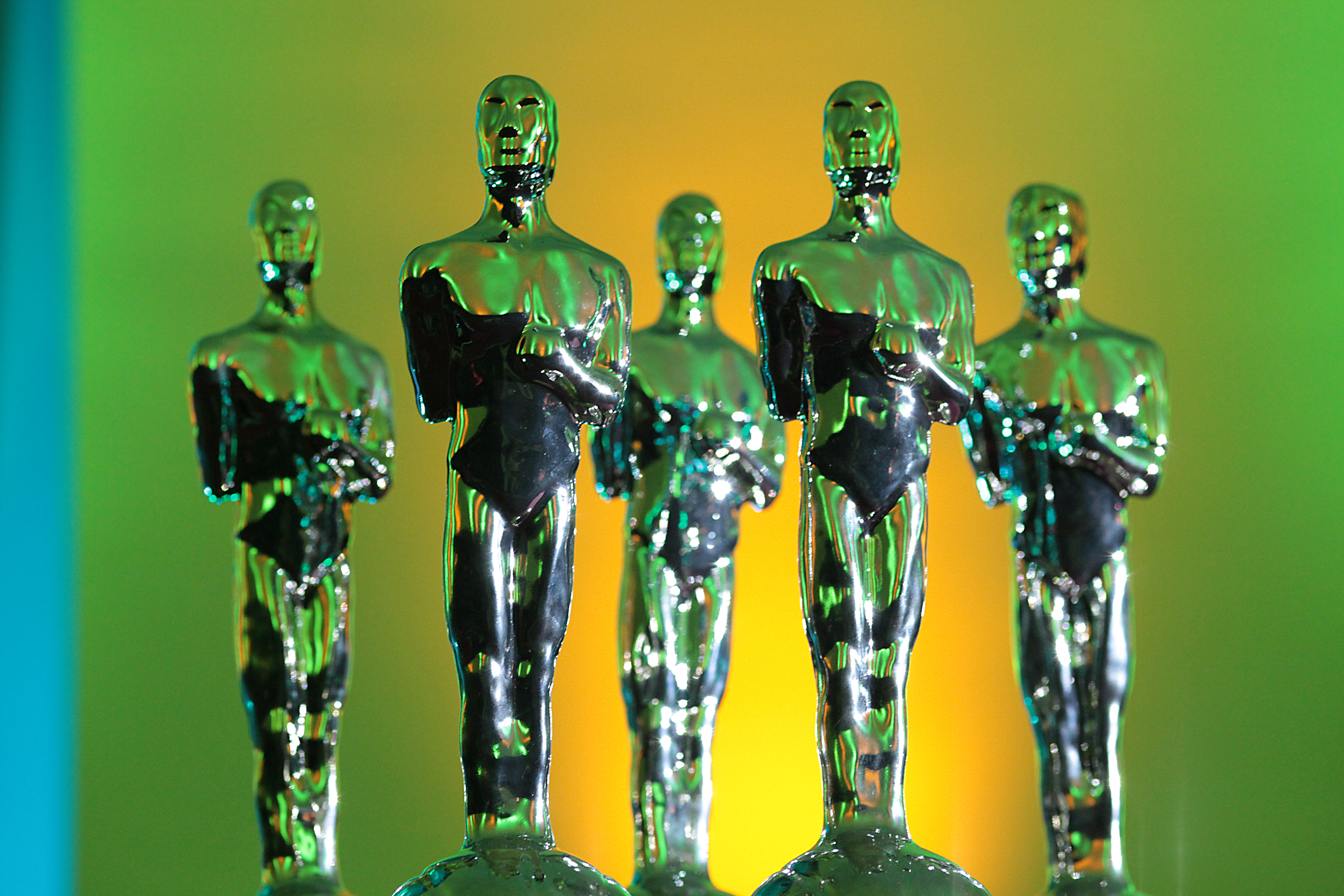 »The Janus«. Fulldome film award for best contributions to the Jena FullDome Festival.